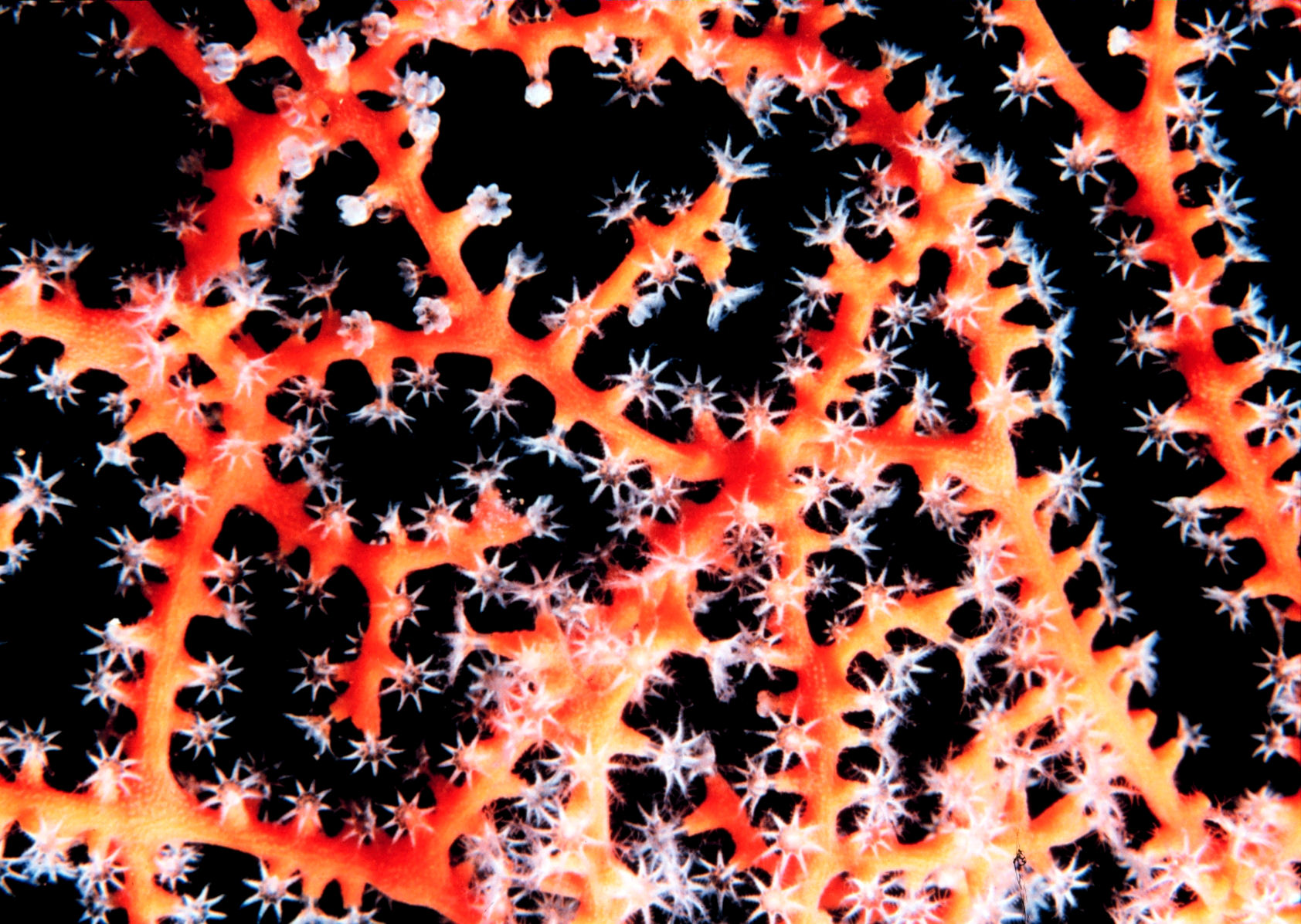 Gorgonian with polyps extended. Gulf of Aqaba, Red Sea.